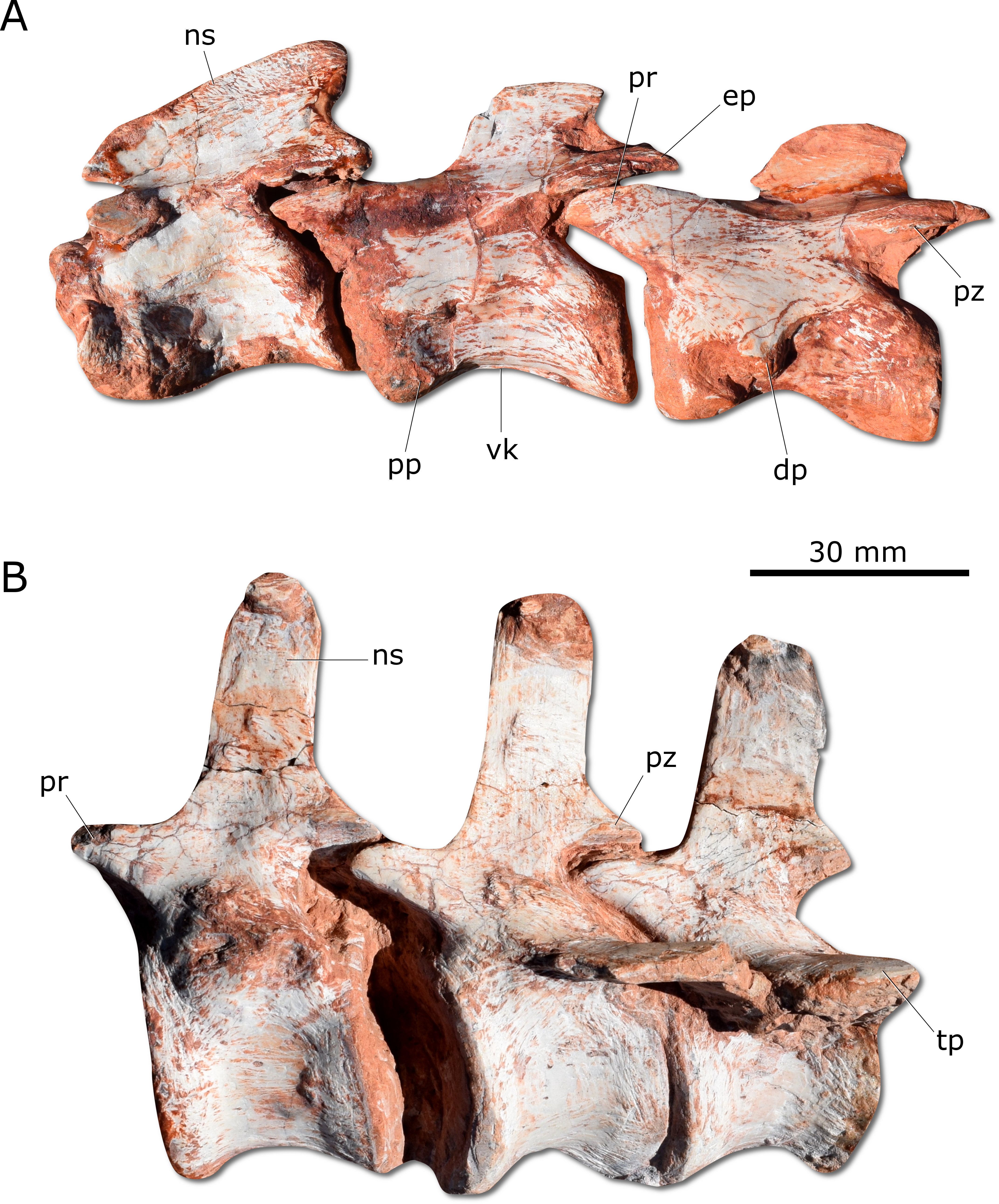 Figure 5: Photographs of selected axial elements of CAPPA/UFSM 0009. (A) second cervical vertebra (axis) to fourth cervical vertebra in left lateral view. (B) Proximal caudal vertebrae in left lateral view. dp, diapophysis; ep, epipophysis; ns, neural spine; pp, parapophysis; pr, prezygapophysis; pz, postzygapophysis; tp, tranverse process; vk, ventral keel.